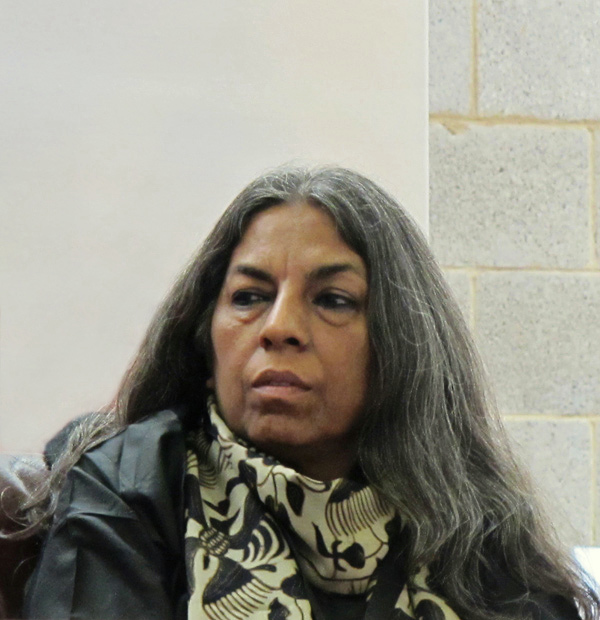 The Indian feminist and publisher Urvashi Butalia at Worlds Writers Conference held by Writers' Centre Norwich at the University of East Anglia